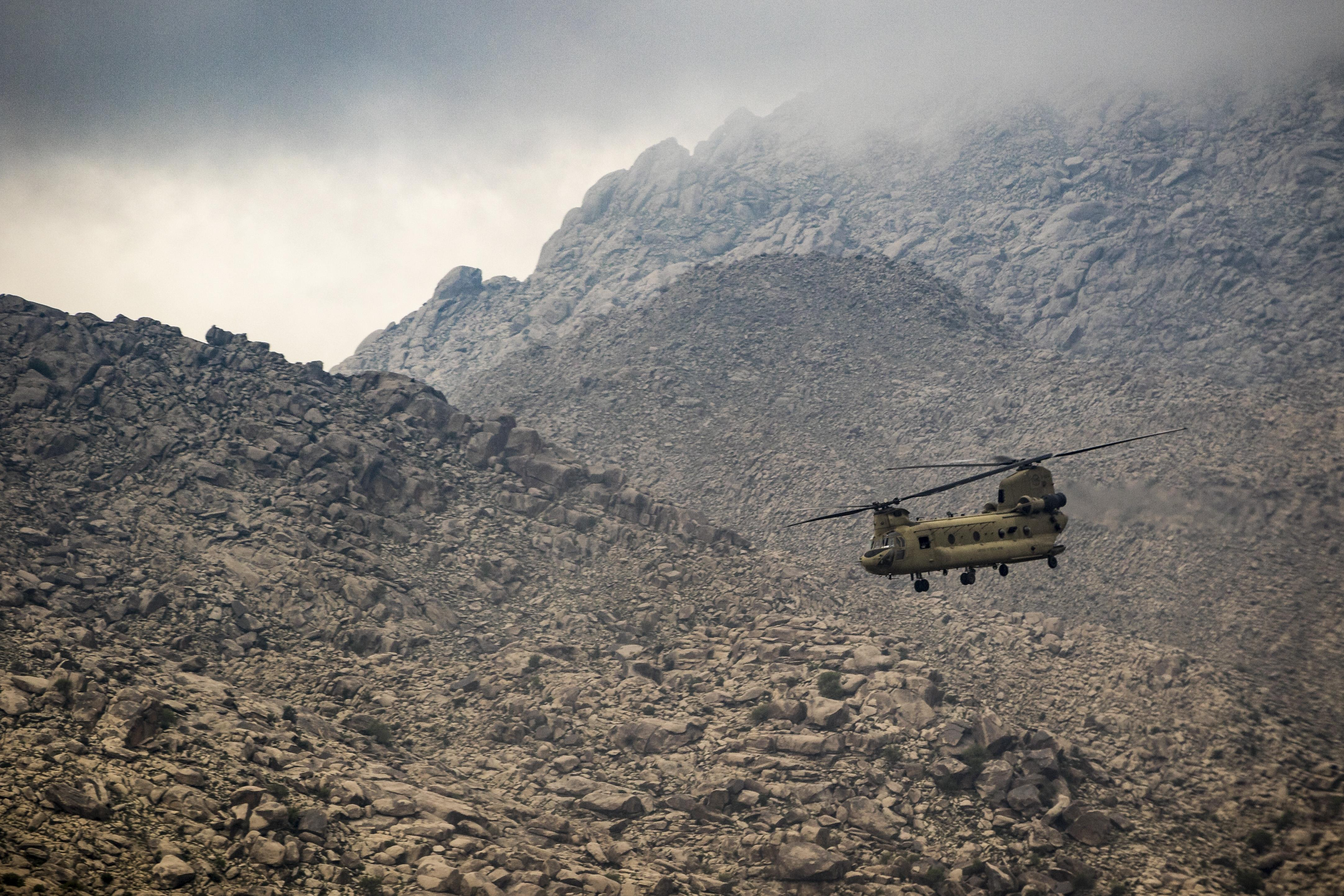 Army CH-47 Chinook helicopter pilots fly near Jalalabad, Afghanistan, April 5, 2017. The pilots are assigned to the 7th Infantry Division's Task Force, 16th Combat Aviation Brigade.The unit is preparing to support Operation Freedom’s Sentinel and Resolute Support. Army photo by Capt. Brian Harris